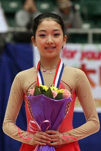 Li Zijun at the 2010-2011 ISU Junior Grand Prix Final.